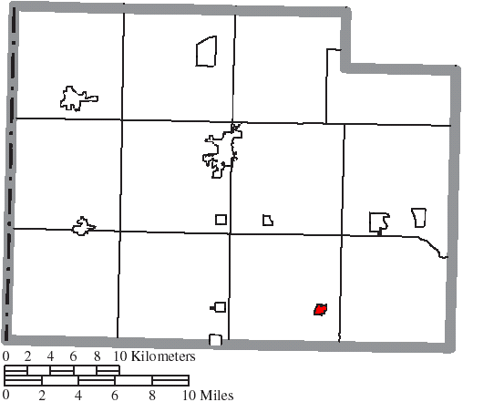 Map of the municipal and township boundaries of Paulding County, Ohio, United States, as of the 2000 census, with the location of the village of Grover Hill highlighted. Township borders are shown only in unincorporated areas in order to differentiate incorporated and unincorporated areas more clearly.